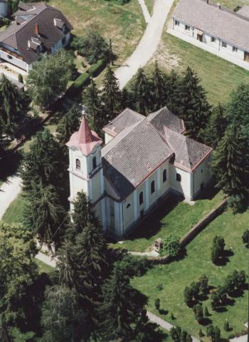 Somogysárd, Hungary, aerialphotography. Szentháromság római katolikus templom This is a photo of a monument in Hungary, Identifier: 8087